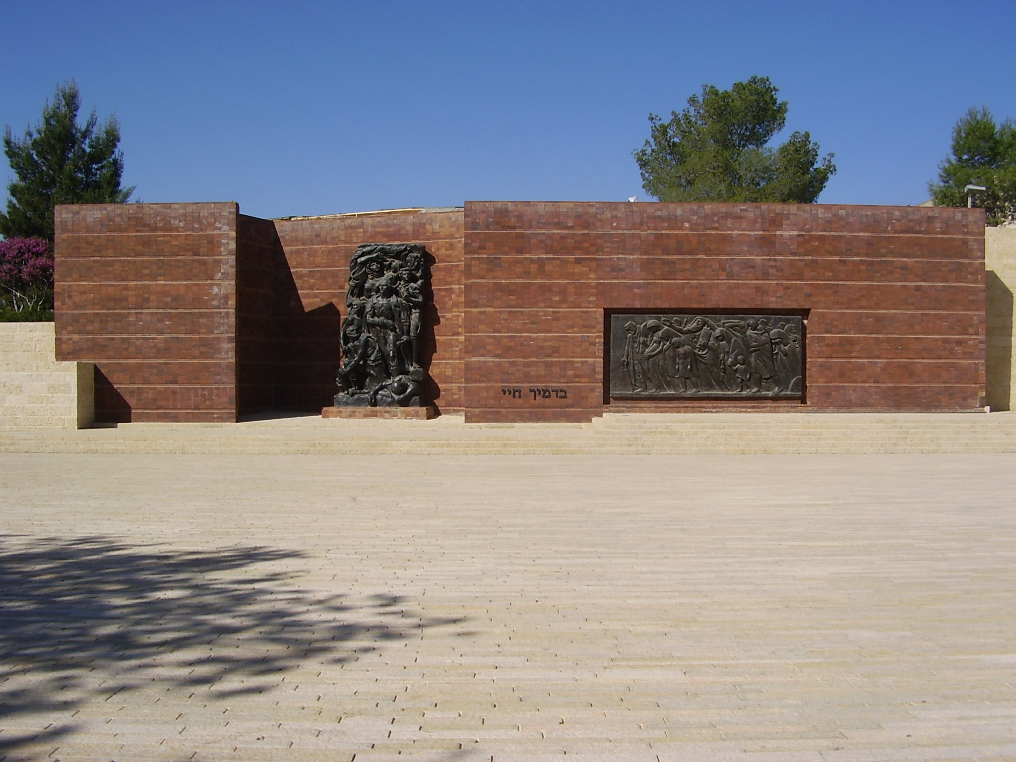 Warsaw Ghetto square in Yad Vashem